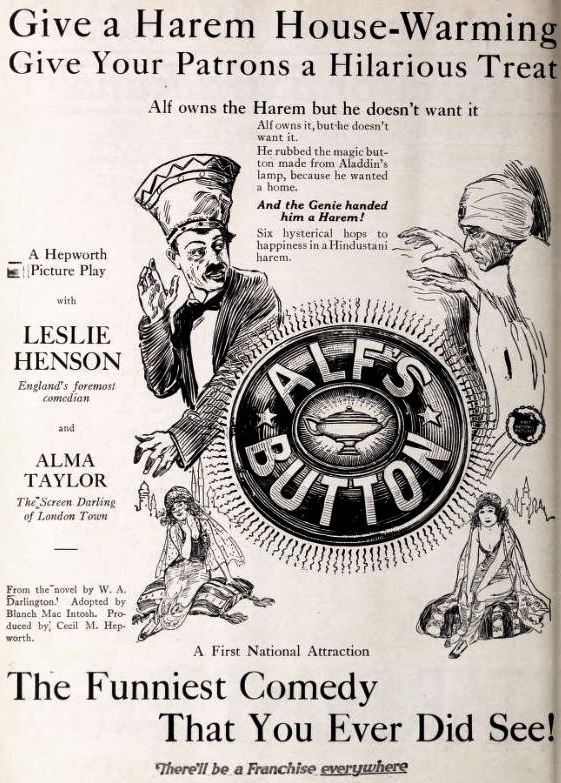 American advertisement for the British comedy adventure film Alf's Button (1920), on page 26 of the January 7, 1922 Exhibitors Herald. The ad did not contain any stills or images from the British film, but consisted of a drawing.